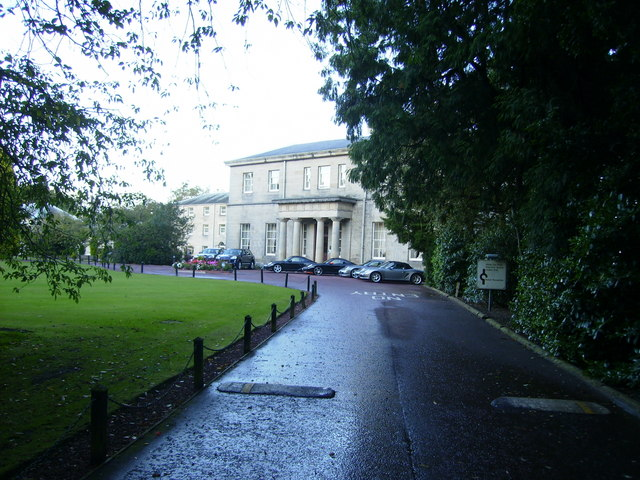 Approach and frontage to Linden Hall Hotel A Porsche exhibition day was taking place when this image was captured.